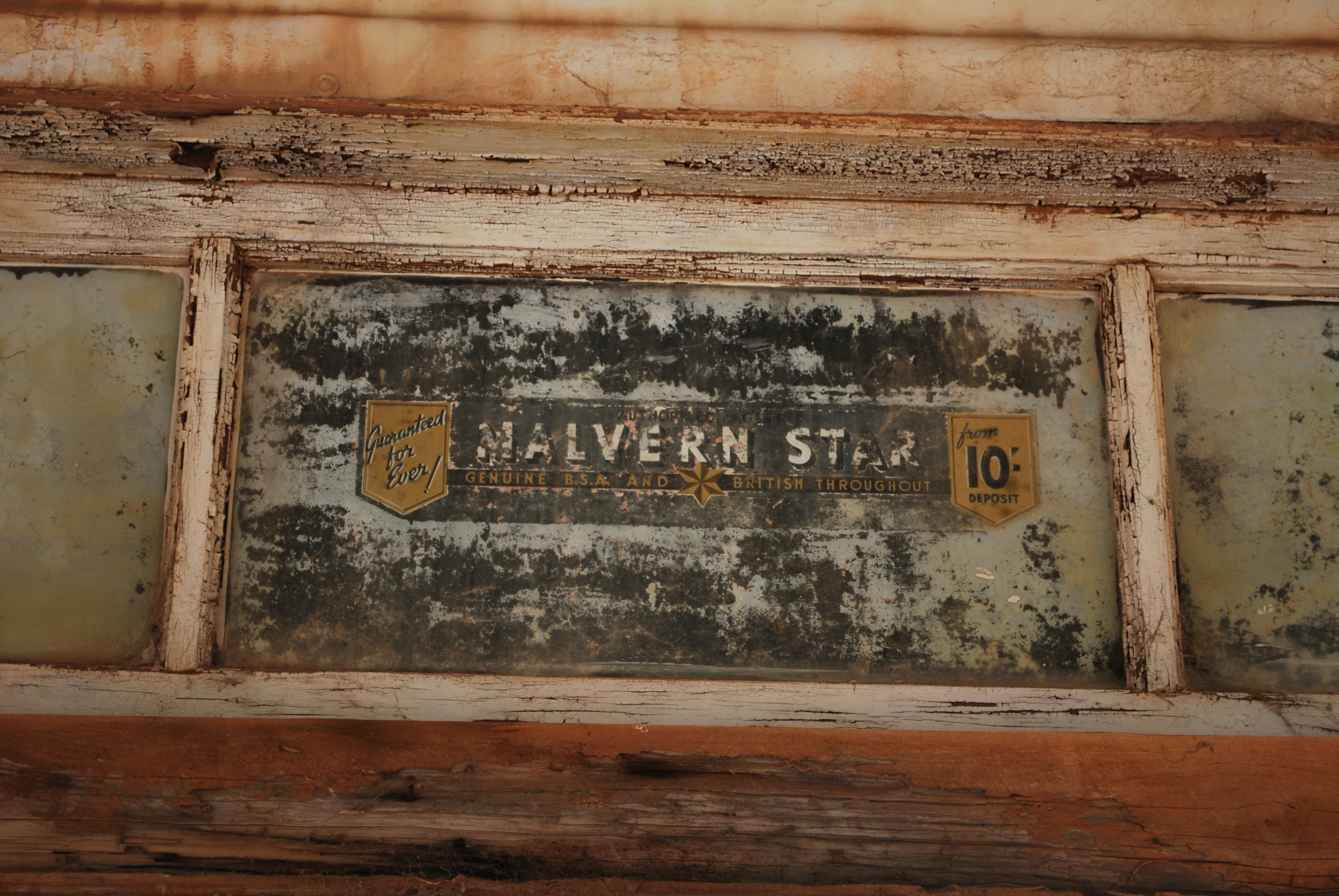 An advertisement for Malvern Star bicycles on the former general store at Tallimba, New South Wales